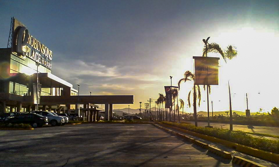 The facade of Robinsons Place Roxas From the Front Carpark Tagalog: Ang harapan ng Robinsons Place Roxas Mula sa Front Car Park